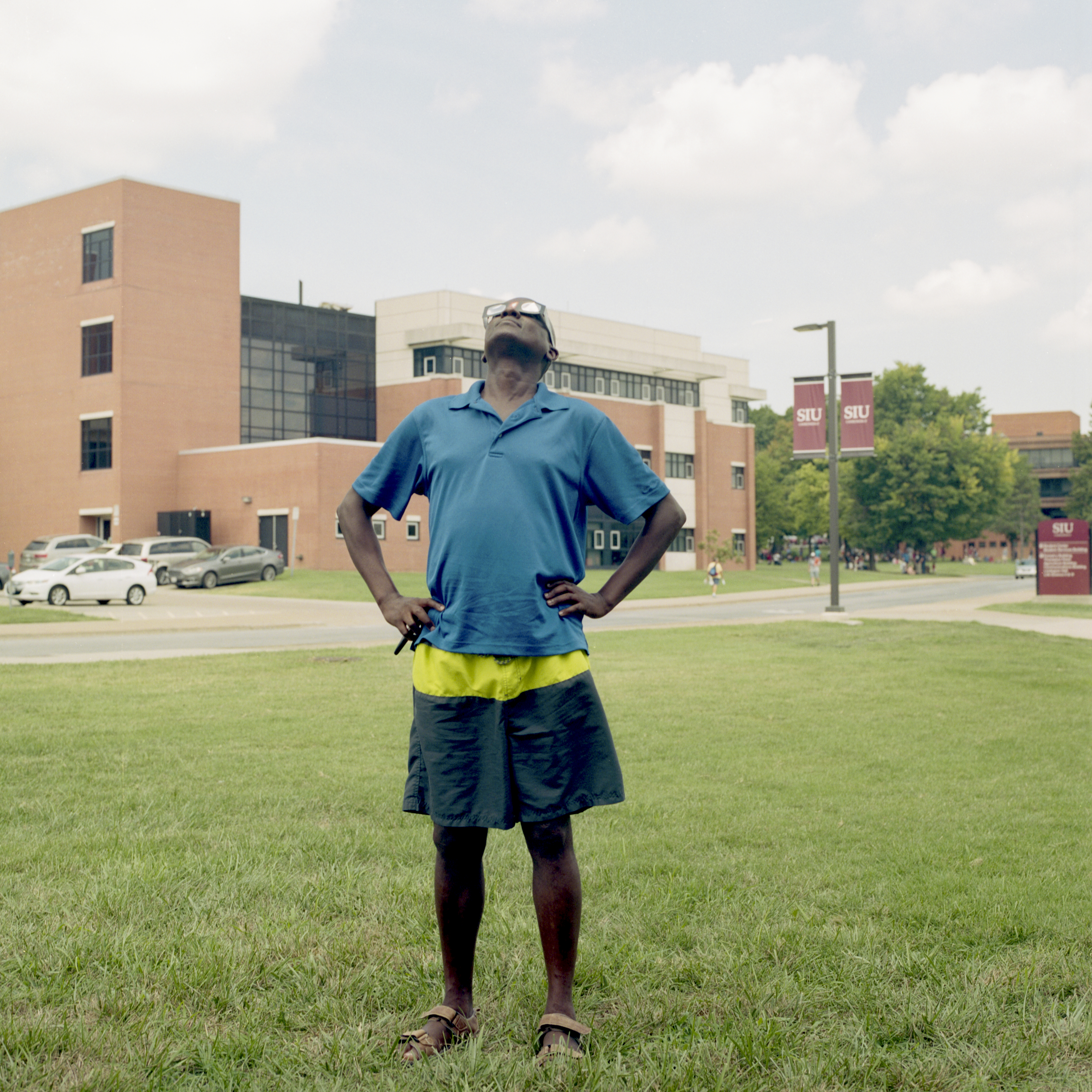 Man watching the total solar eclipse at Southern Illinois University in Carbondale, Illinois